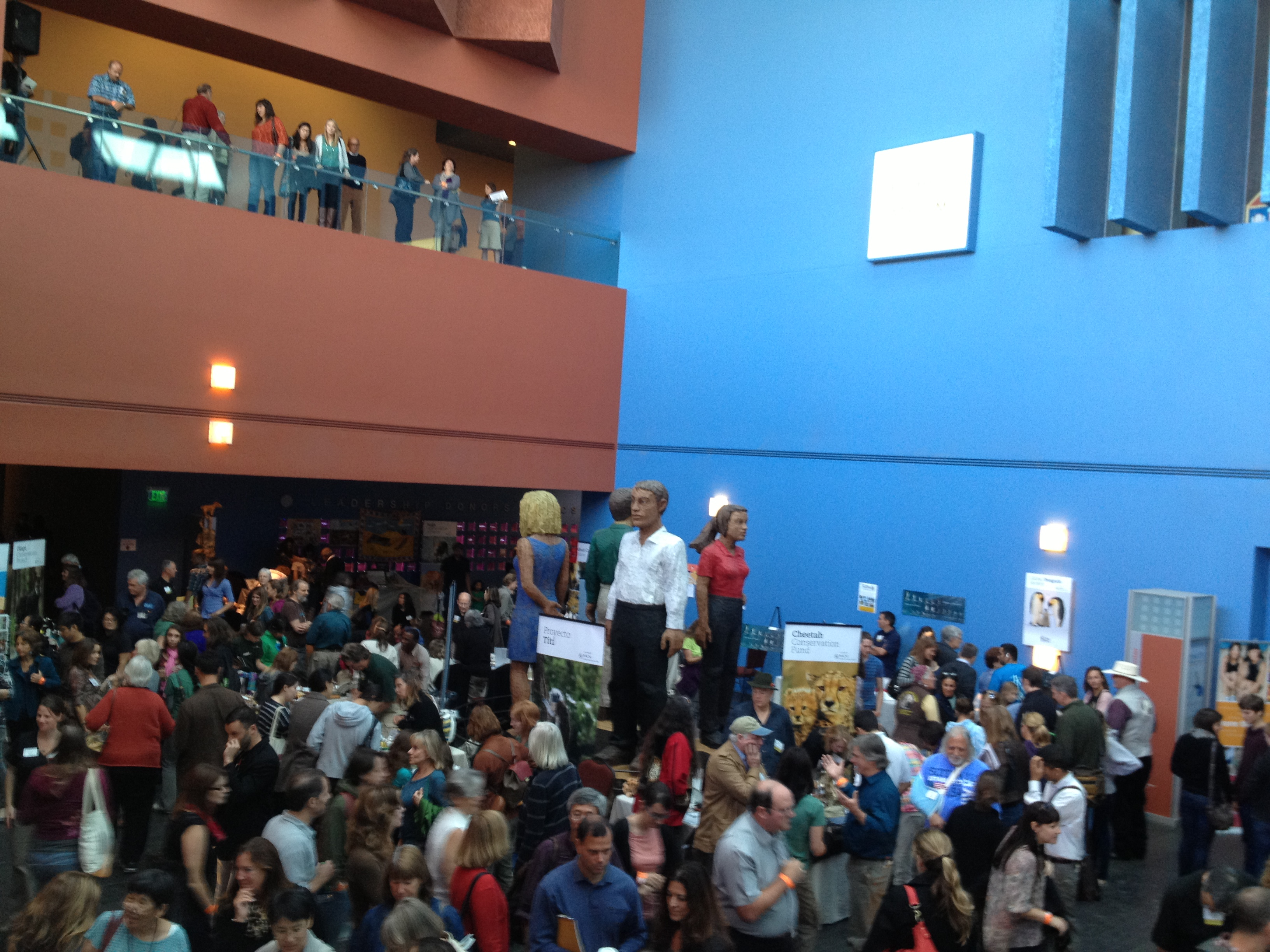 Wildlife Conservation Network Expo 2012